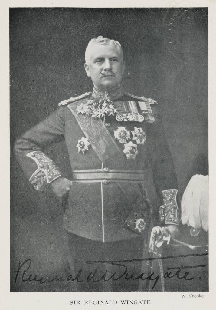 A picture of Sir Reginald Wingate (1861–1953) in full military uniform and holding a sword.